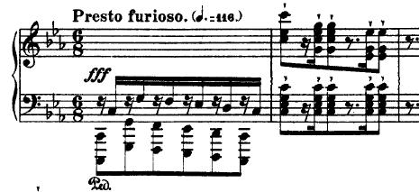 Beginning of the Transcendental Étude No. 8, "Wilde Jagd" by Franz Liszt.